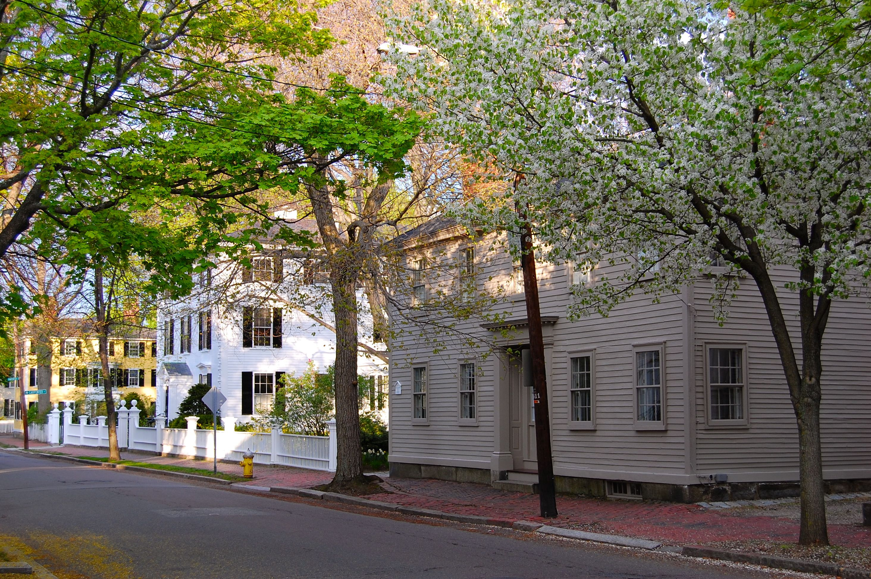 18th and 19th century homes in the Federal Street District of Salem, Massachusetts.